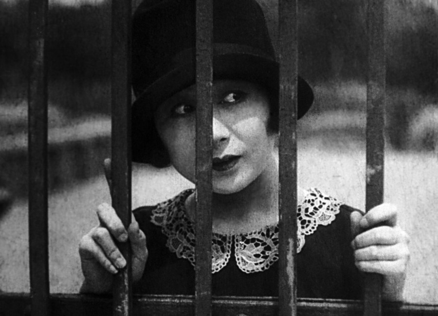 Shizue Natsukawa in Ai no machi (愛の町) directed by Tomotaka Tasaka - 1928